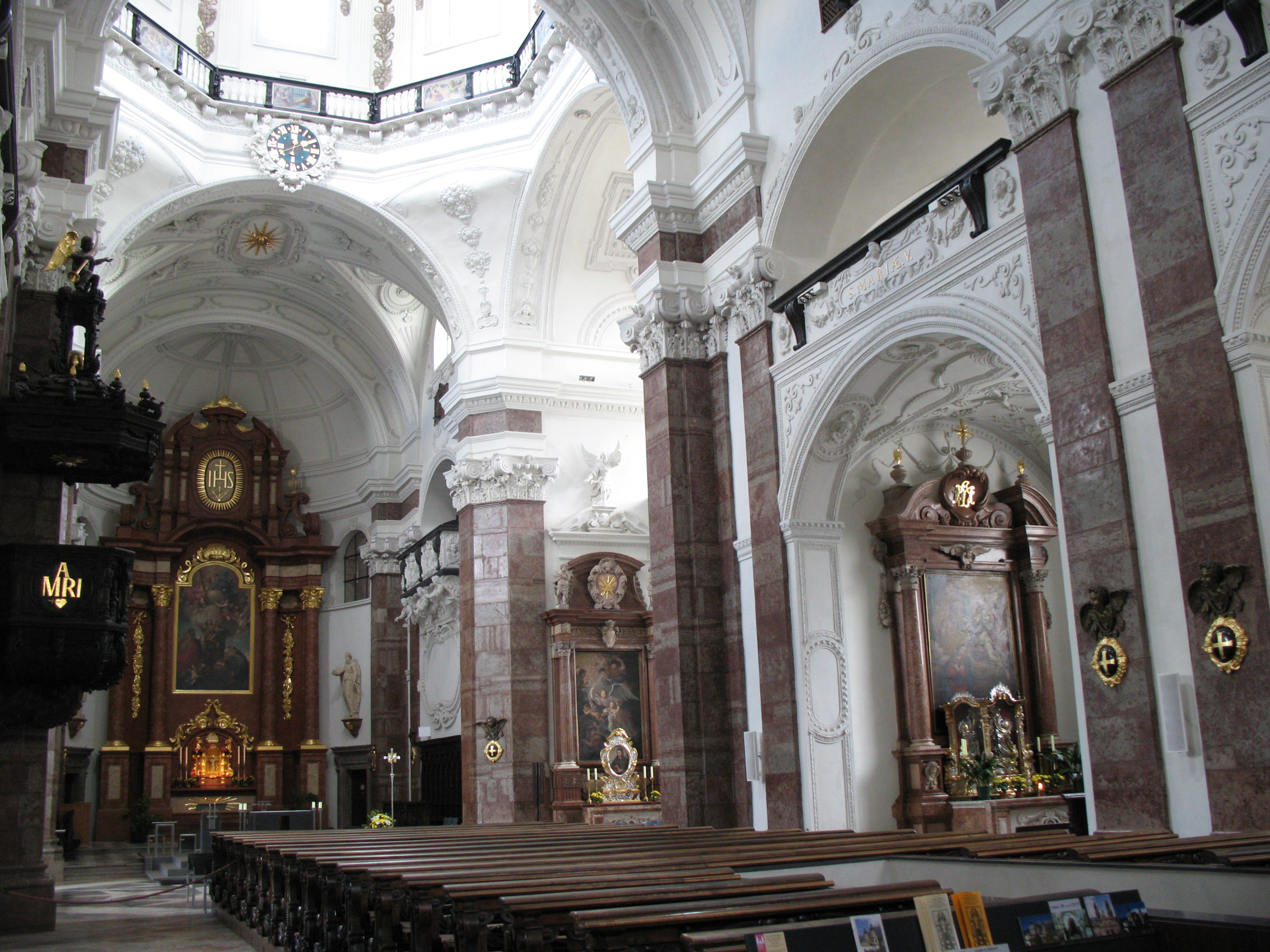 Jesuit Church, Innsbruck, Austria